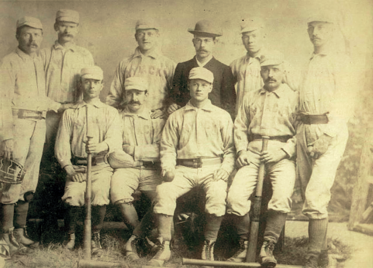 The nine players of the Nyack baseball team in 1890 (approx), plus their manager. The catcher, on the left, the pitcher is in the front row, holding a ball, George Aloysius “Doc” Leitner is standing third from the left.